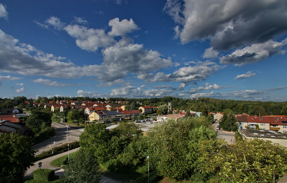 view of Plochingen (quarter Stumpenhof)